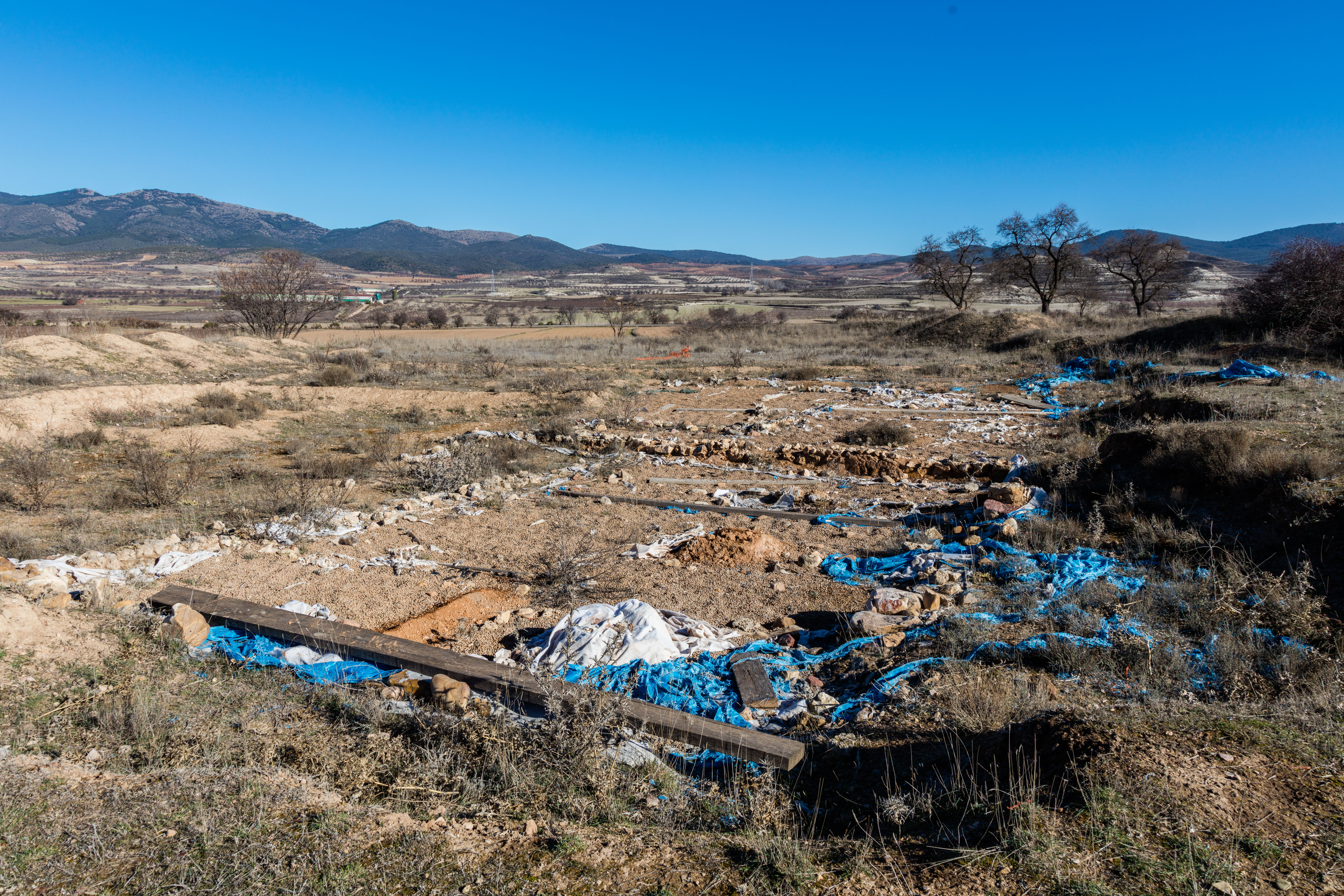 Archeological site of Segeda, Belmonte de Gracián, Saragossa, Spain